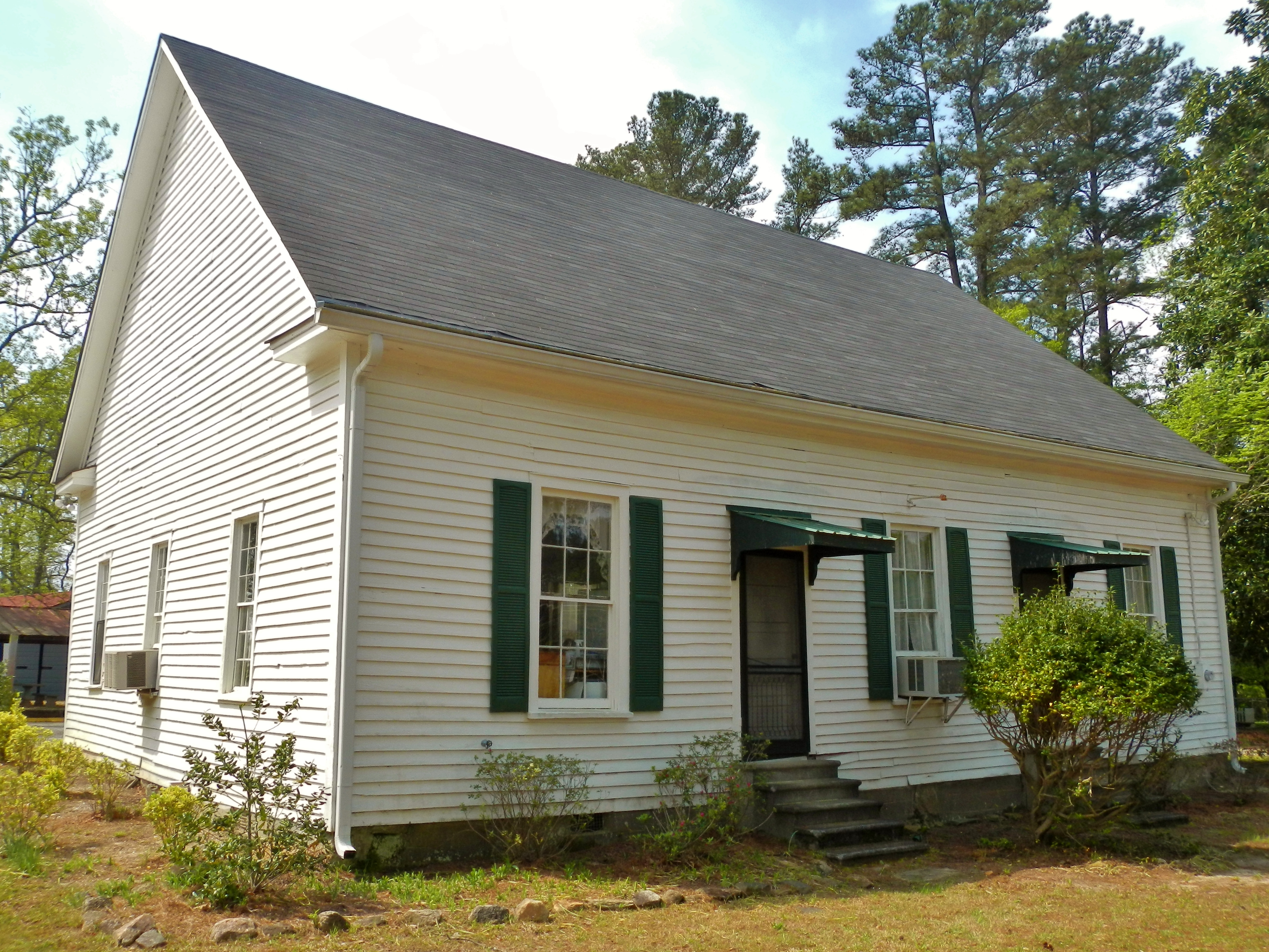 This is a photo of the Lone Oak Academy, built in 1870 in Lone Oak, GA.